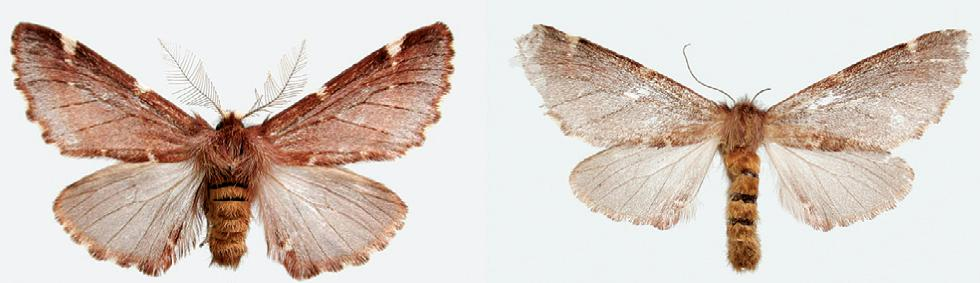 Ptilophora nanlingensis male (left), female (right)